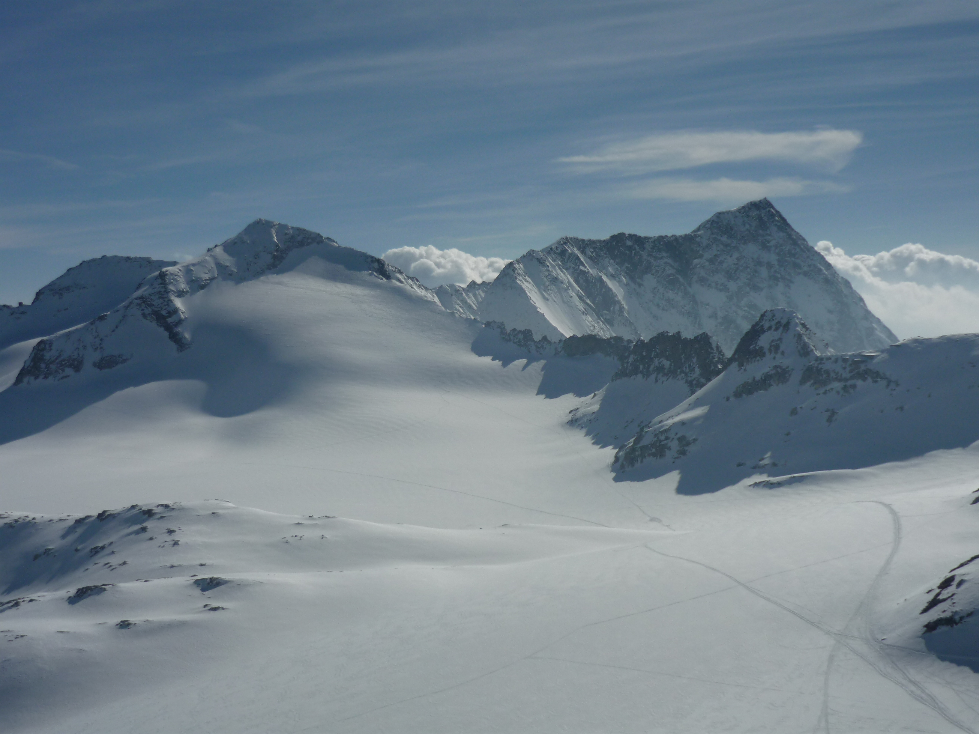 The mount Adamello (on the right) and the Corno Bianco (on the left) seen from the Venezia Pass Lumbaart: L'Adamèl (a destra) e el Corn Bianch (a sinistra) vedüü dal Pass Venezia